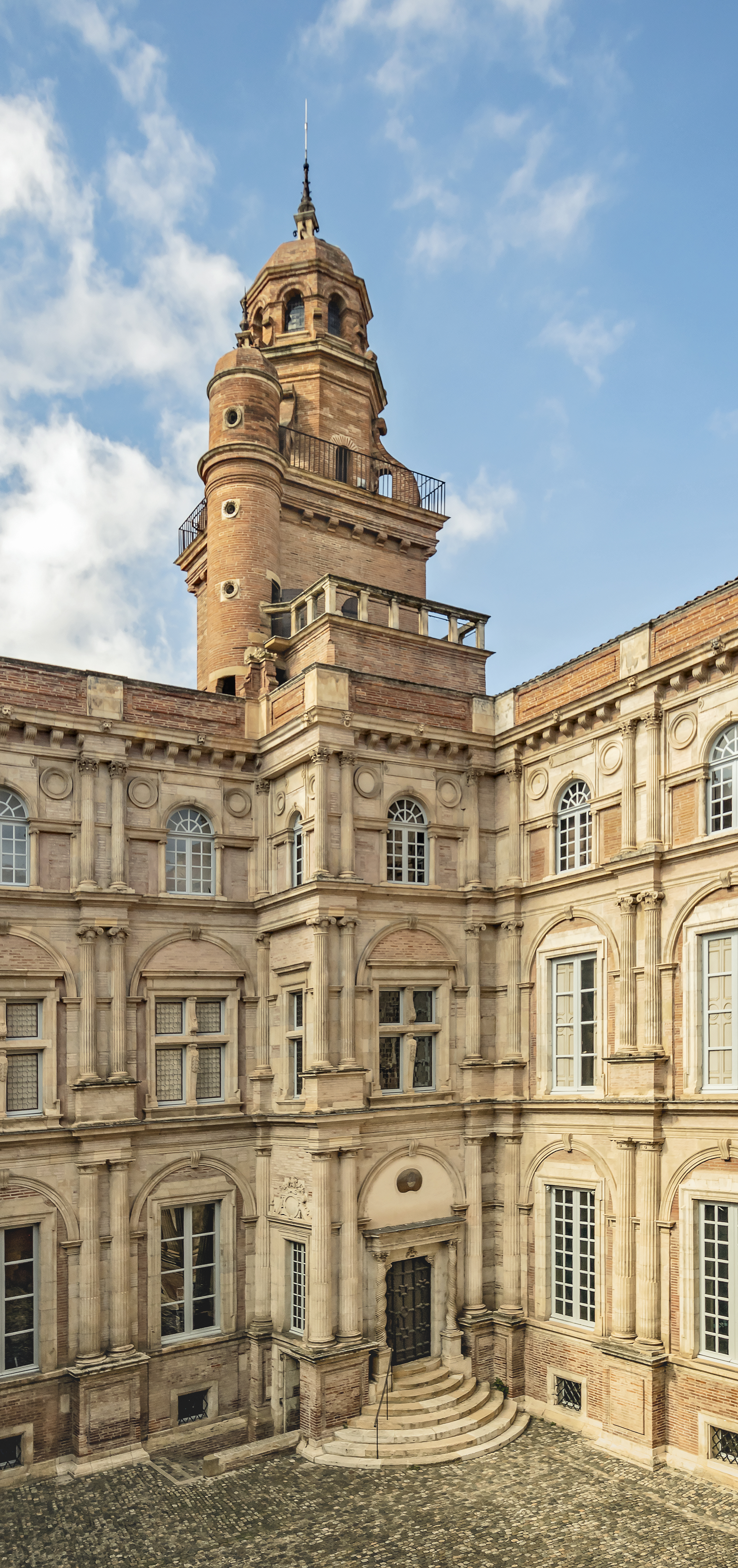 Hôtel d'Assézat in Toulouse; the tower seen from the courtyard.